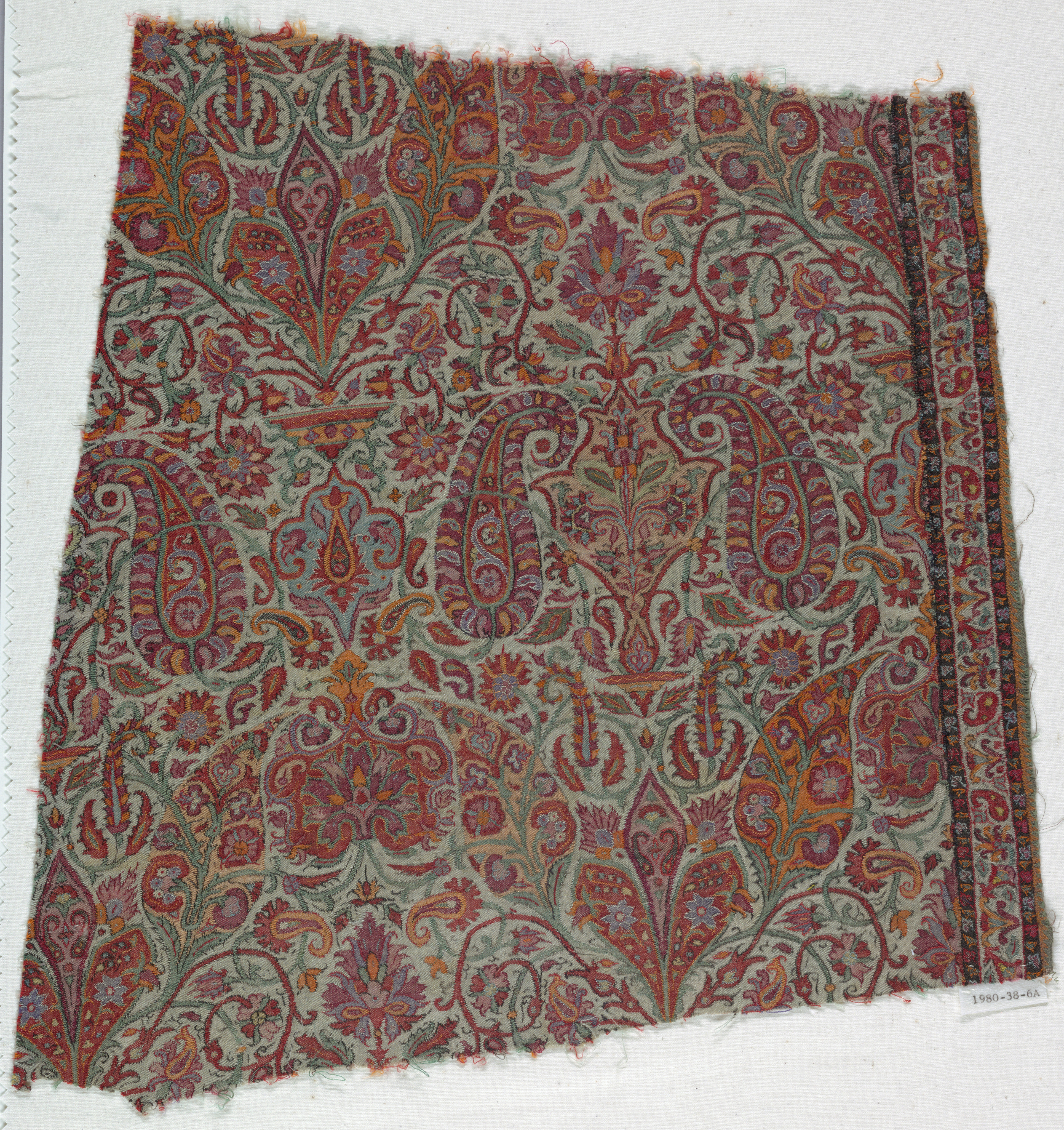 Shawl fragment with a narrow border has a pale green ground covered with paisley motifs, flower clusters and large leaves in shades of red, purple, pink, orange, green, and light blue.